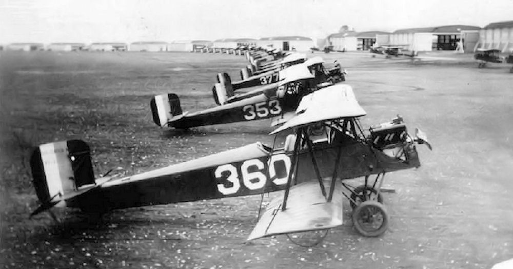 11th School Group Consolidated PT-1 trainers Brooks Field Texas. Brooks Field became the center for primary Army pilot training in the 1920s.